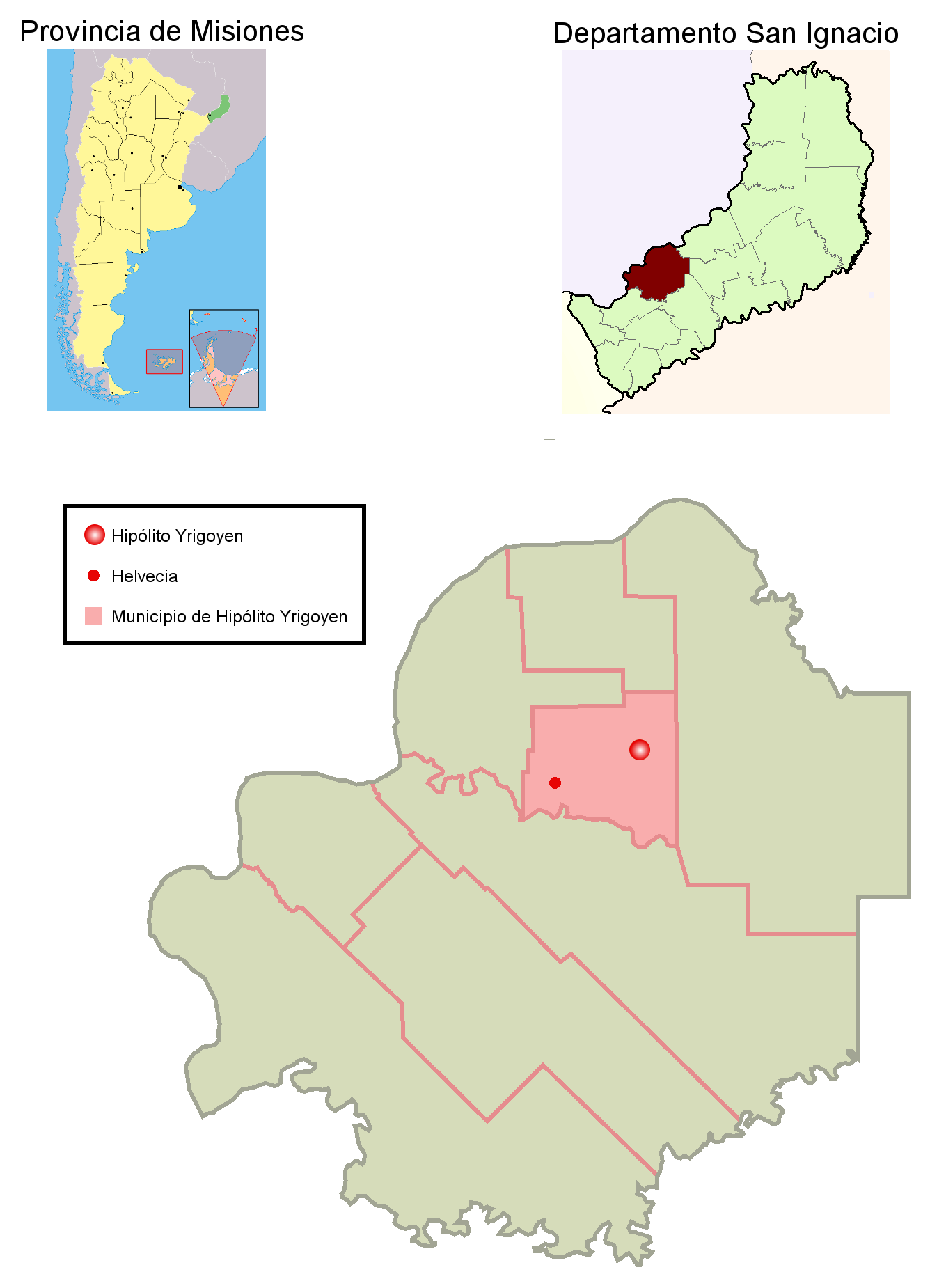 A map showing municipio of Hipólito Yrigoyen in San Ignacio departament, Misiones province, Argentina. Also shows Hipólito Yrigoyen town location and Helvecia town location. Created with GIMP.